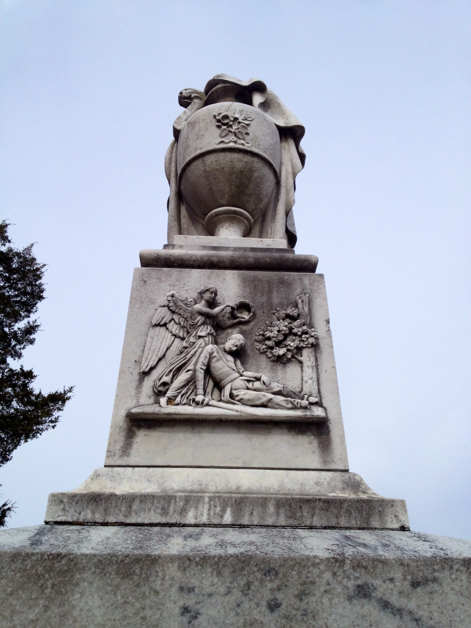 The Confederate Memorial (also referred to as the First Confederate Memorial) is a memorial in Indian Mound Cemetery in Romney, West Virginia. Photographed by Quercus montana on March 16, 2014.